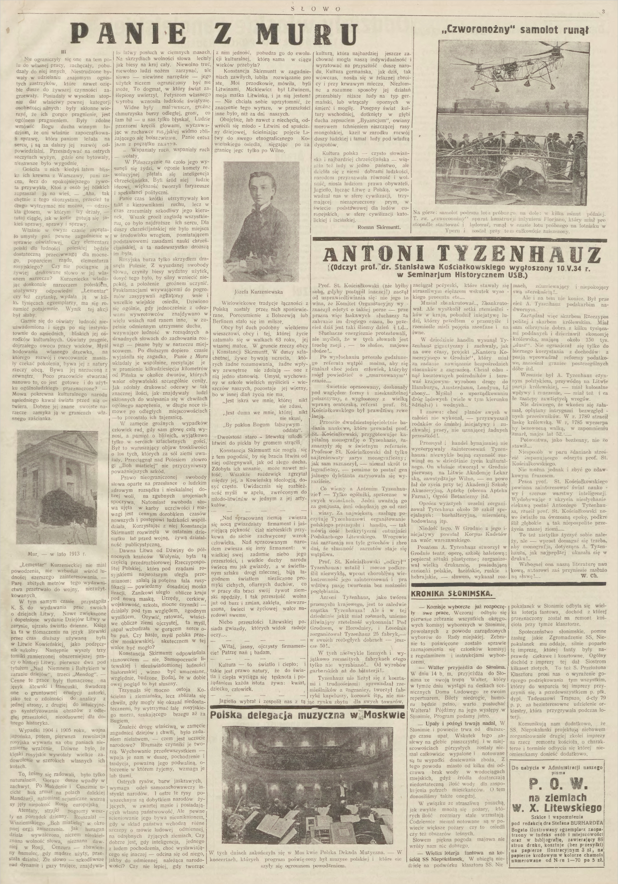 third page of newspaper "Słowo" (#127, 1934 AD), Poland. Roman Skirmunt (1868-1939)'s article " Panie z muru"